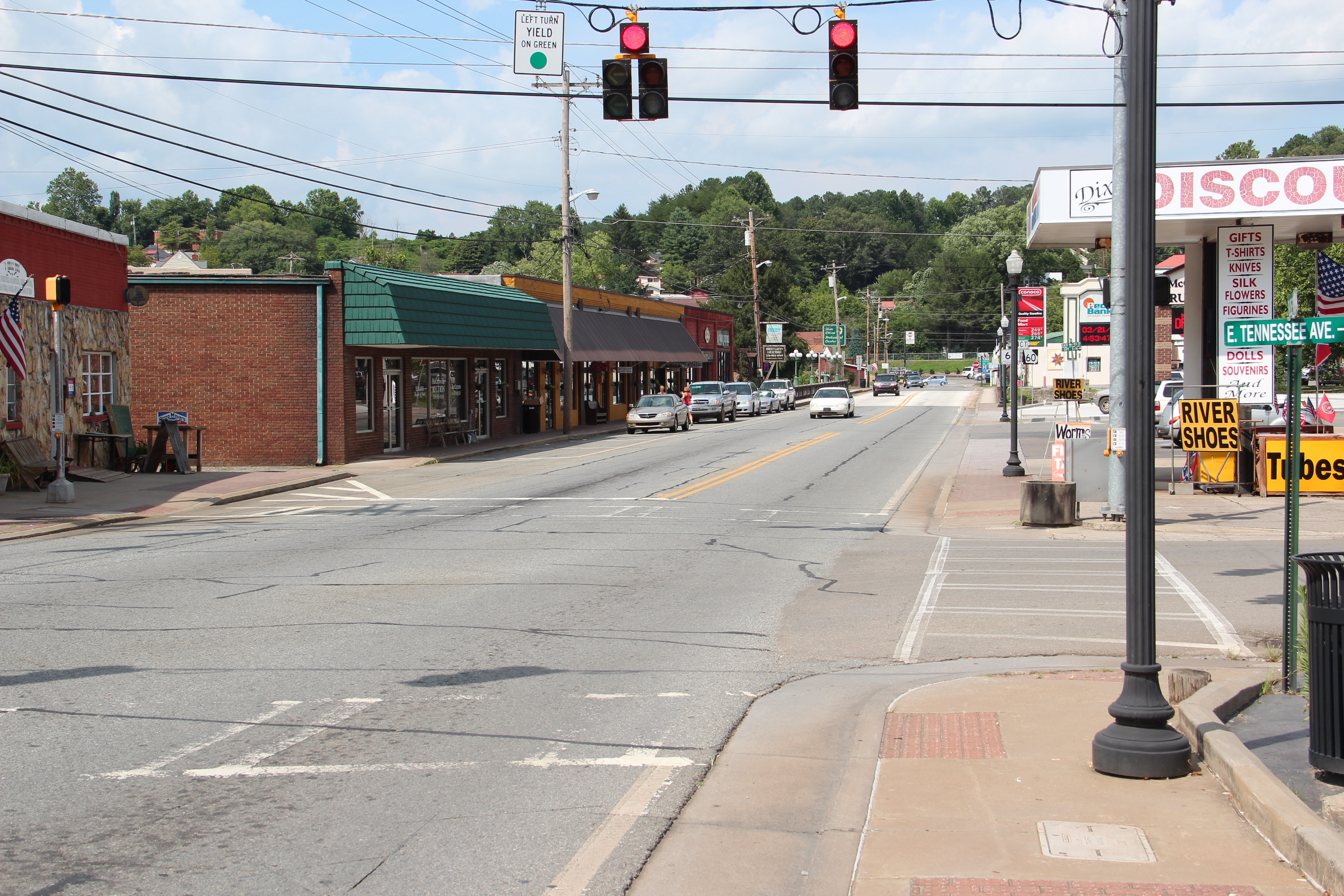 Georgia Route 5 in McCaysville